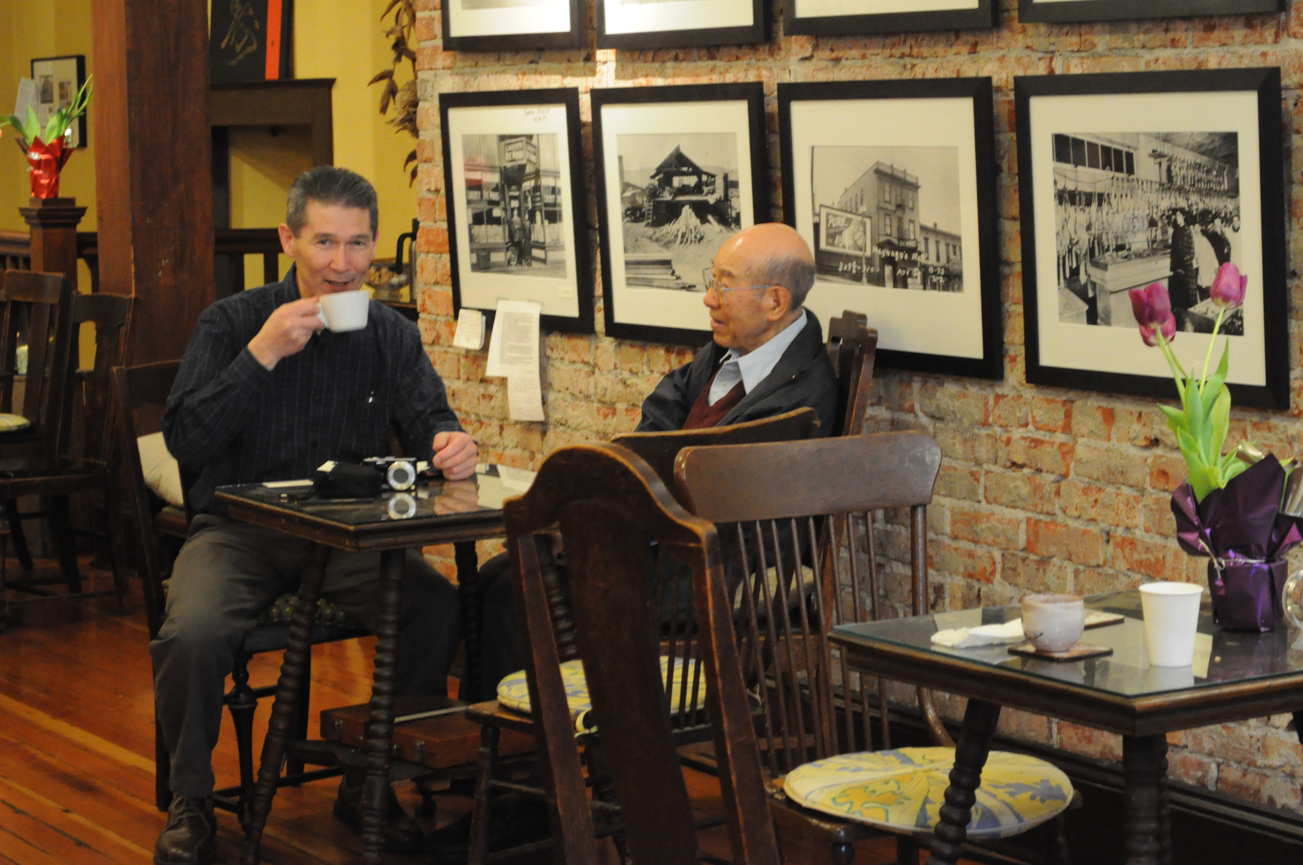 Interior, Panama Hotel Café, International District, Seattle, Washington.